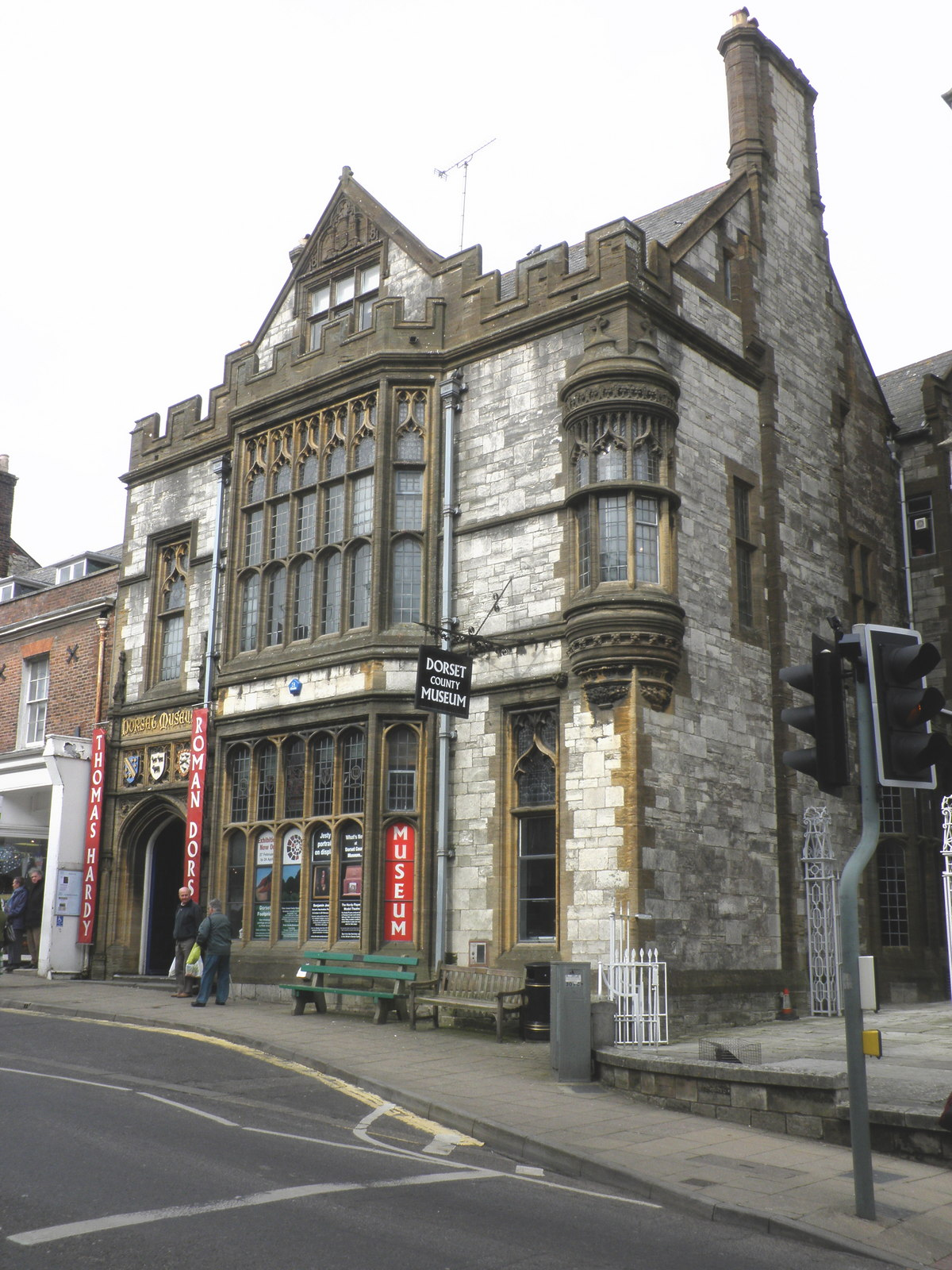 Dorset County Museum, High Street, Dorchester